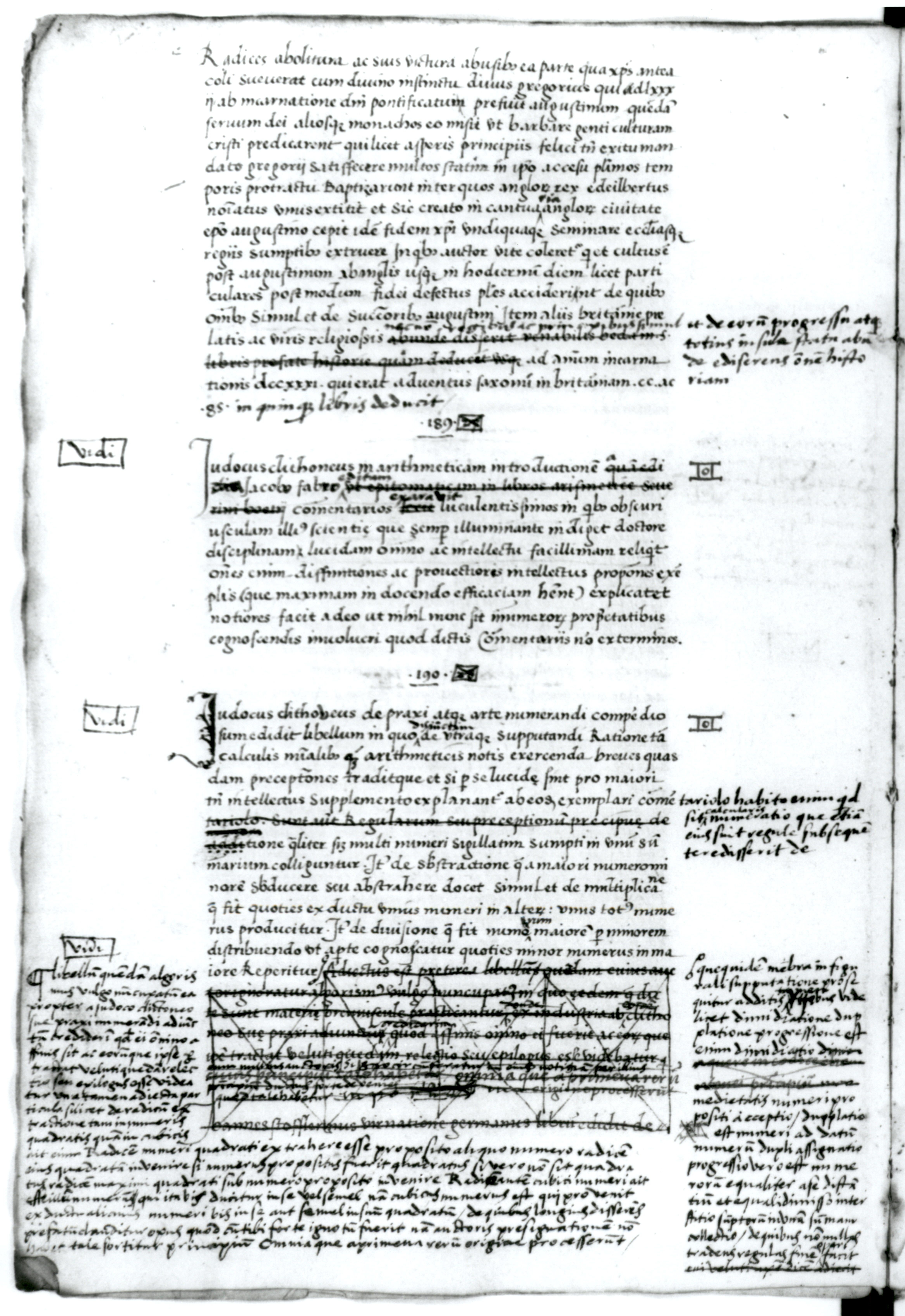 This black and white photograph shows folio 14 verso from AM 377 fol. (el Libro de los Epítomes that belonged to Hernando Colón, a.k.a. Ferdinand Columbus). Corrections and marginal notes are prominent.